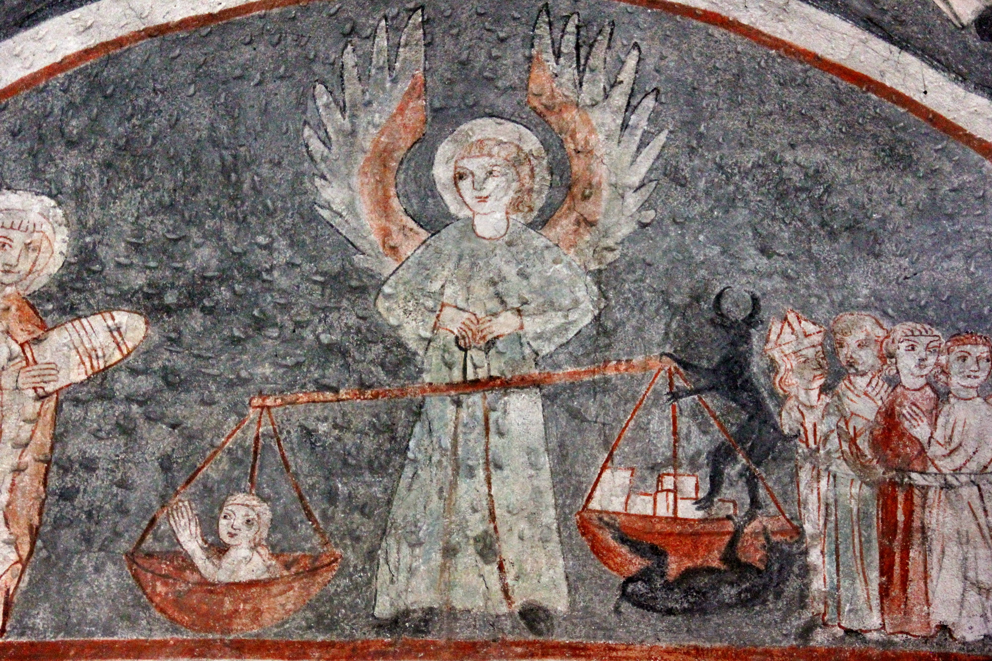 Church of St. Vitus Native nameSt. VituskircheLocationKottingwörth, Beilngries, Upper Bavaria, GermanyCoordinates49° 01′ 12.17″ N, 11° 31′ 06.86″ E